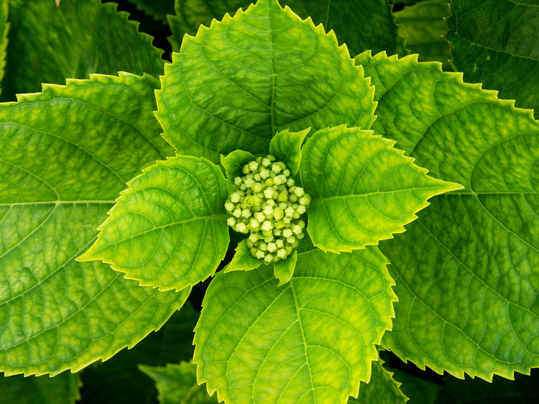 Leaves and buds of Hortensia (Hydrangea macrophylla)